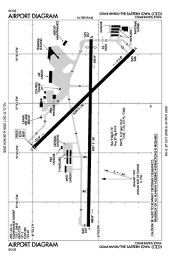 FAA airport diagram for The Eastern Iowa Airport (CID) in Cedar Rapids, Iowa, United States.